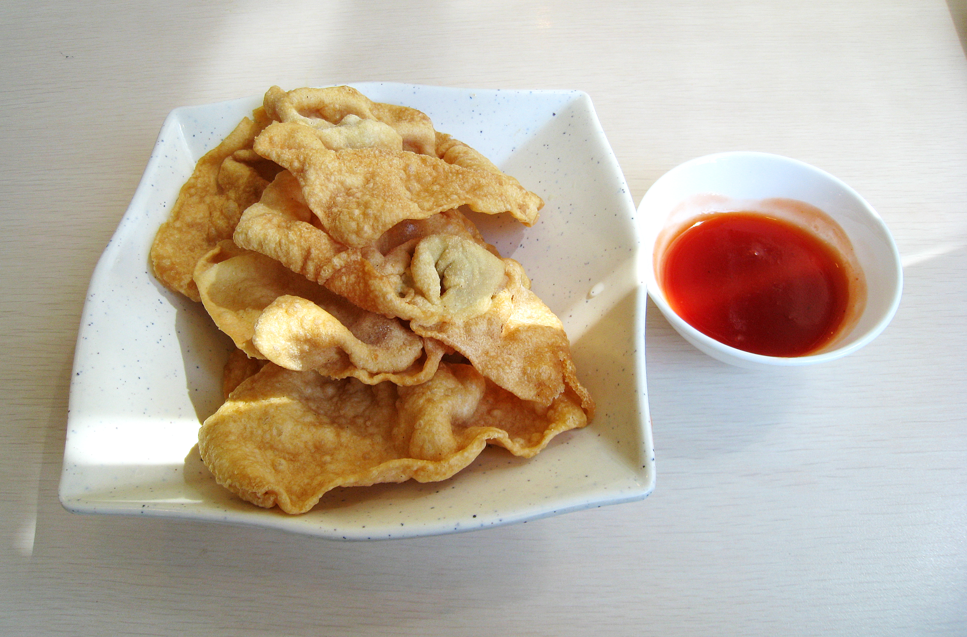 Pangsit Goreng (fried wonton) Gajah Mada, Jakarta, Indonesia.